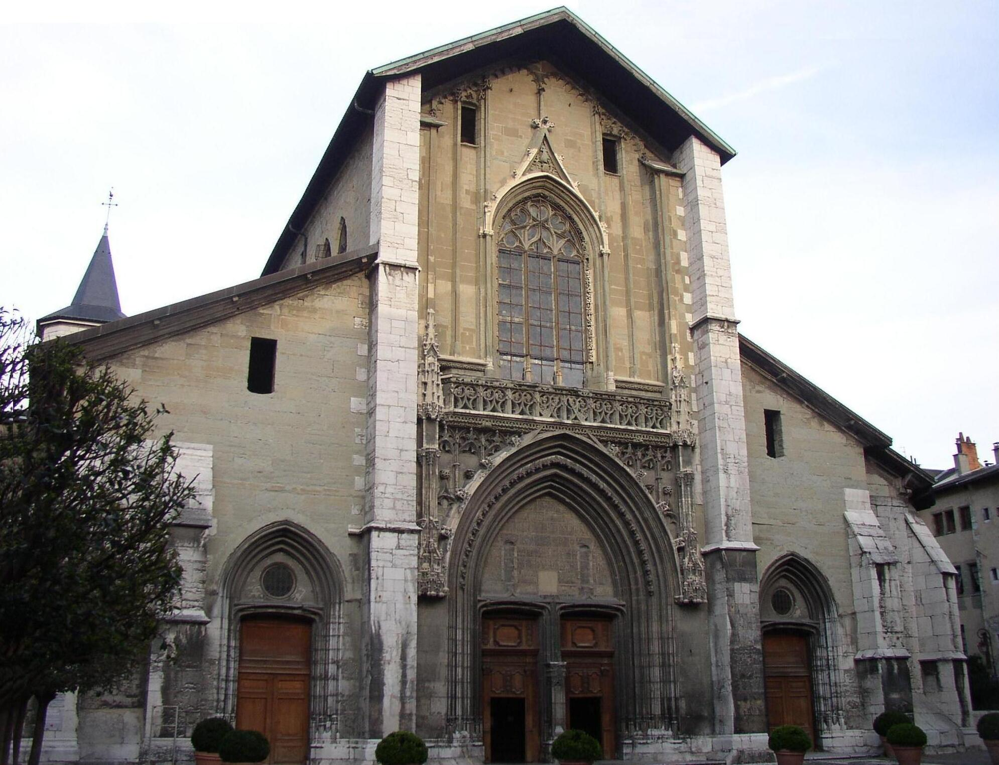 Sight of cathedral Saint-François-de-Sales of Chambéry 'Savoie, France), in 2005.